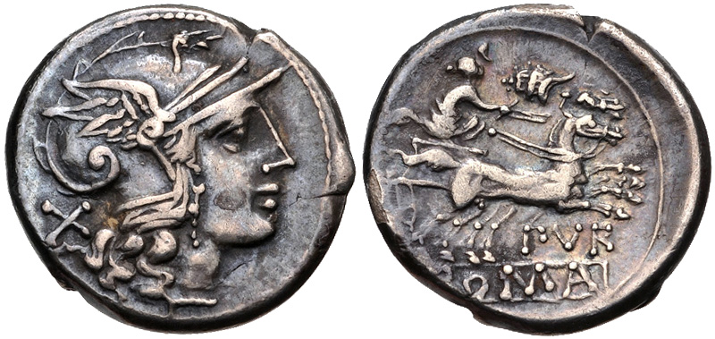 Furius Purpurio 169-158 BC. AR Denarius (17.5mm, 3.59 g, 5h). Rome mint. Helmeted head of Roma right; X (mark of value) to left / Diana or Luna Lucifera, wearing crescent on head, driving galloping biga right, holding reins and goad; murex shell above. Crawford 187/1; Sydenham 424; Furia 13. VF, toned, a couple of small flan flaws on obverse, a pair of marks on reverse, traces of deposits. From the FJ Collection.